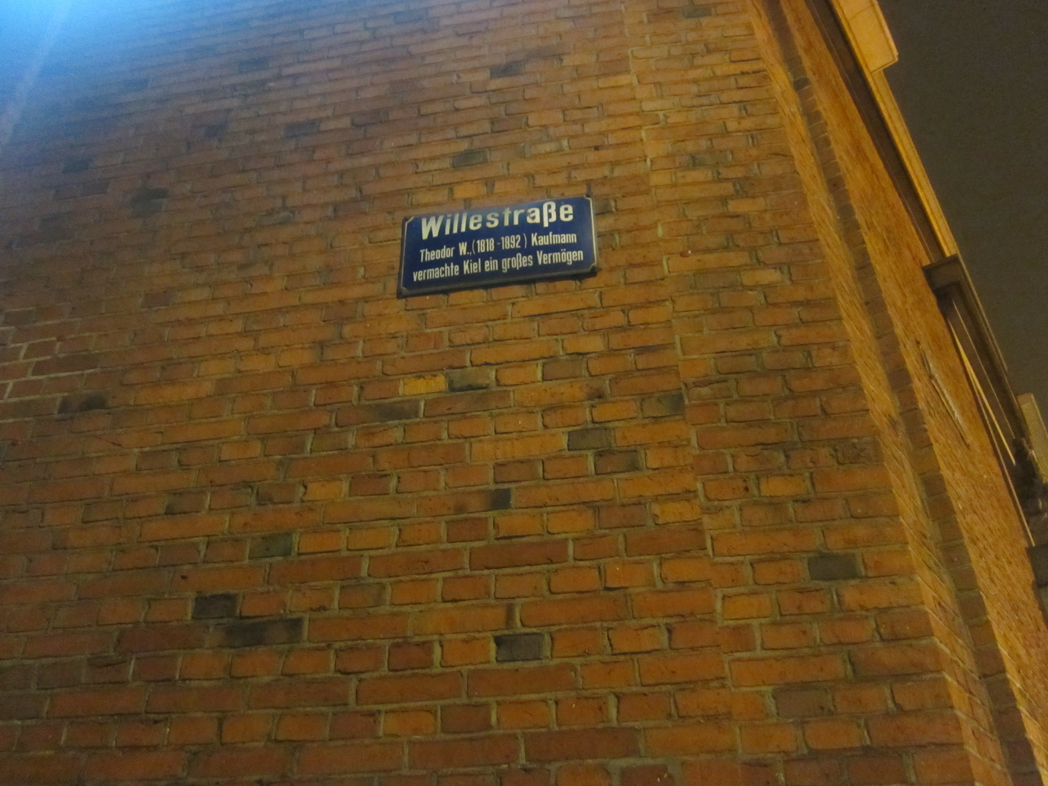 Street sign "Willestraße" in Kiel-Vorstadt